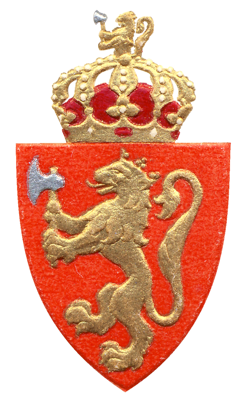 Norwegian royal coat of arms, 1905 design by Eilif Peterssen (1852-1928). Scanned from an invitation to dinner in the Royal Palace 1937.